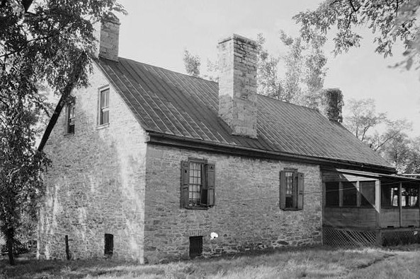 Traveler's Rest, Leetown vicinity (Jefferson County, West Virginia) (cropped). Historic American Buildings Survey of West Virginia—HABS image.